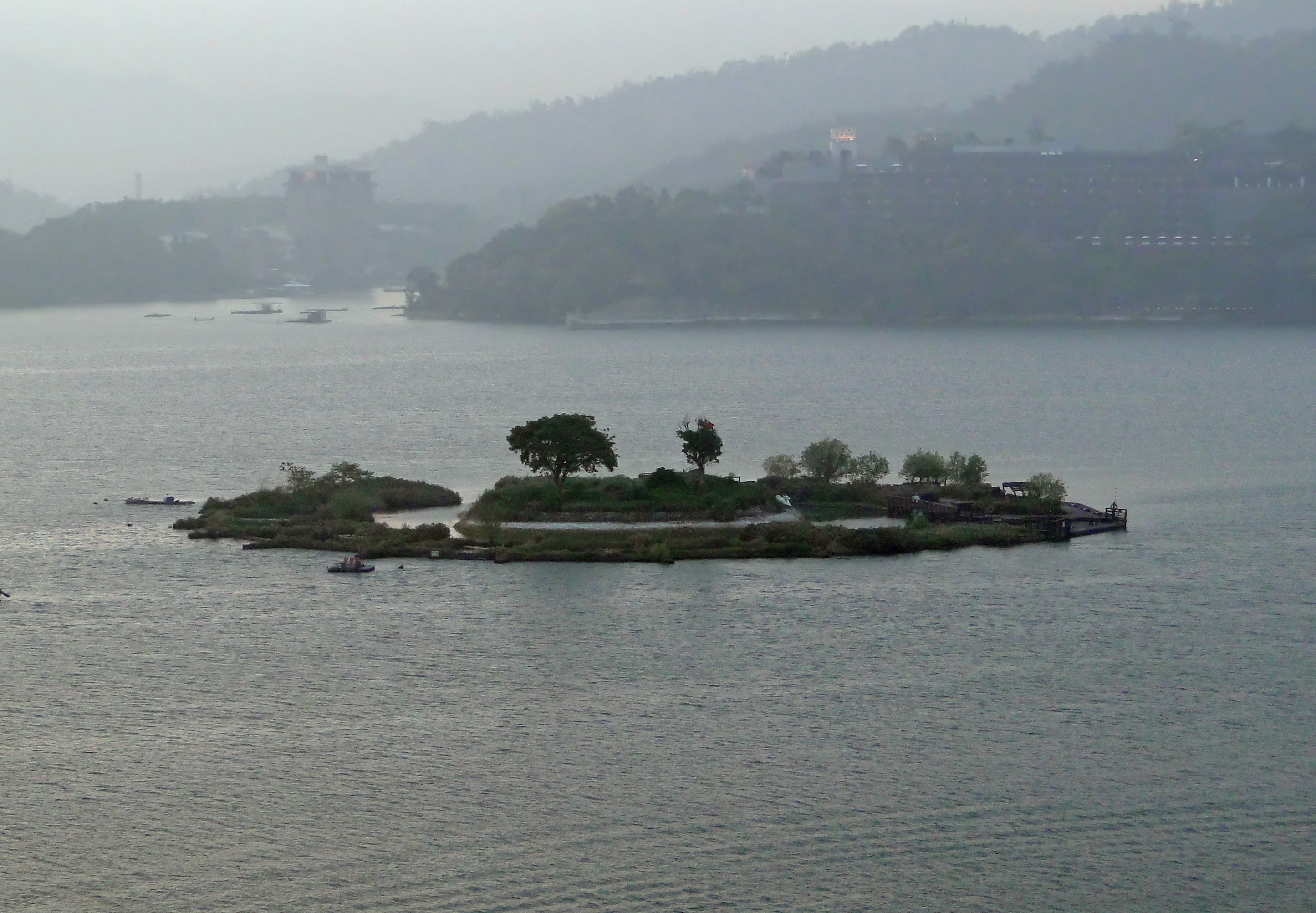 Lalu Island seen from Xuanguang Temple, Sun Moon Lake, Nantou County, Taiwan